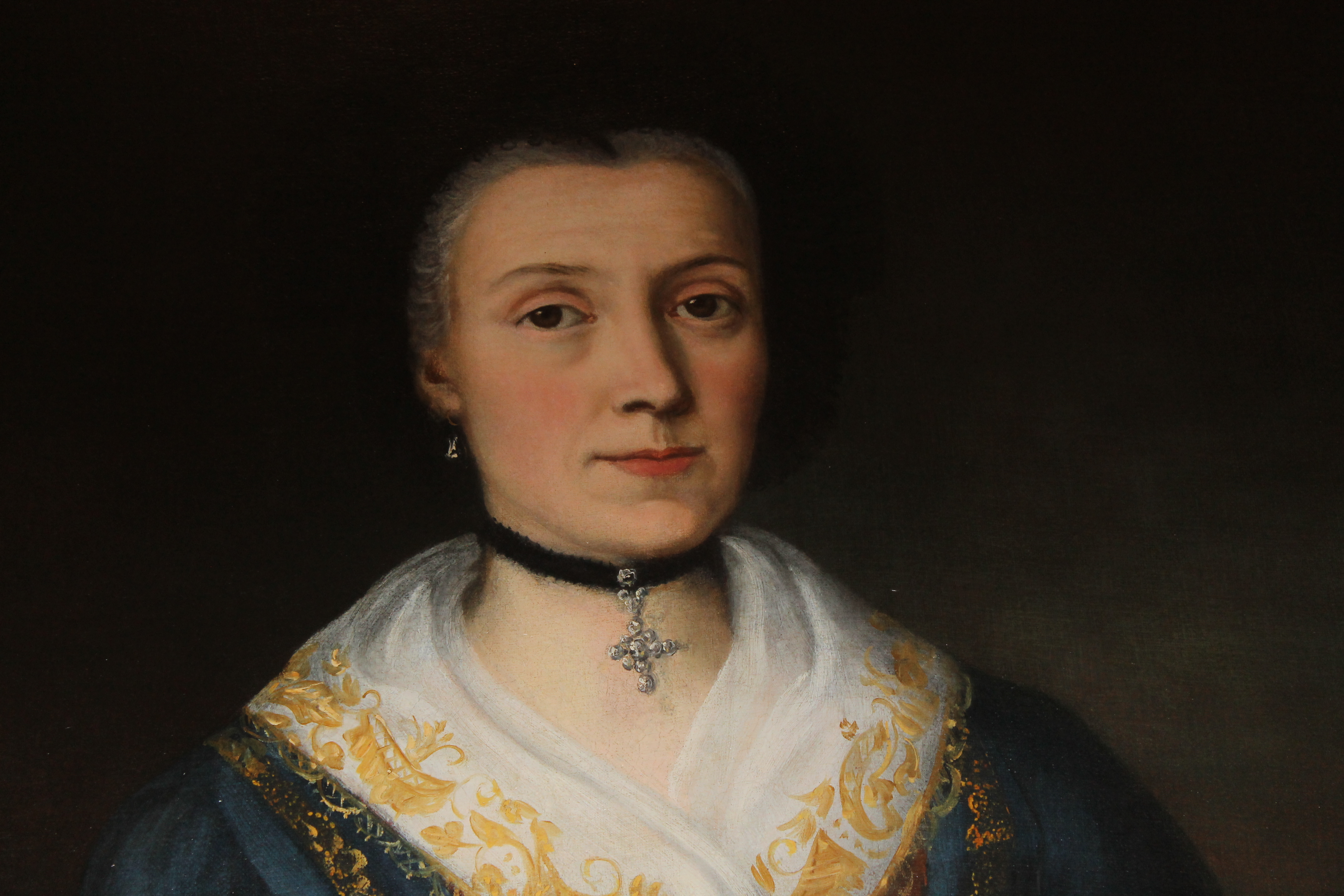 I took photo with Canon camera of Margaret Sanford Hutchinson, wife of Thomas Hutchinson, at Old State House Museum in Boston. No copyright; painting dated 1750